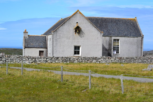 Church at Timsgearraidh